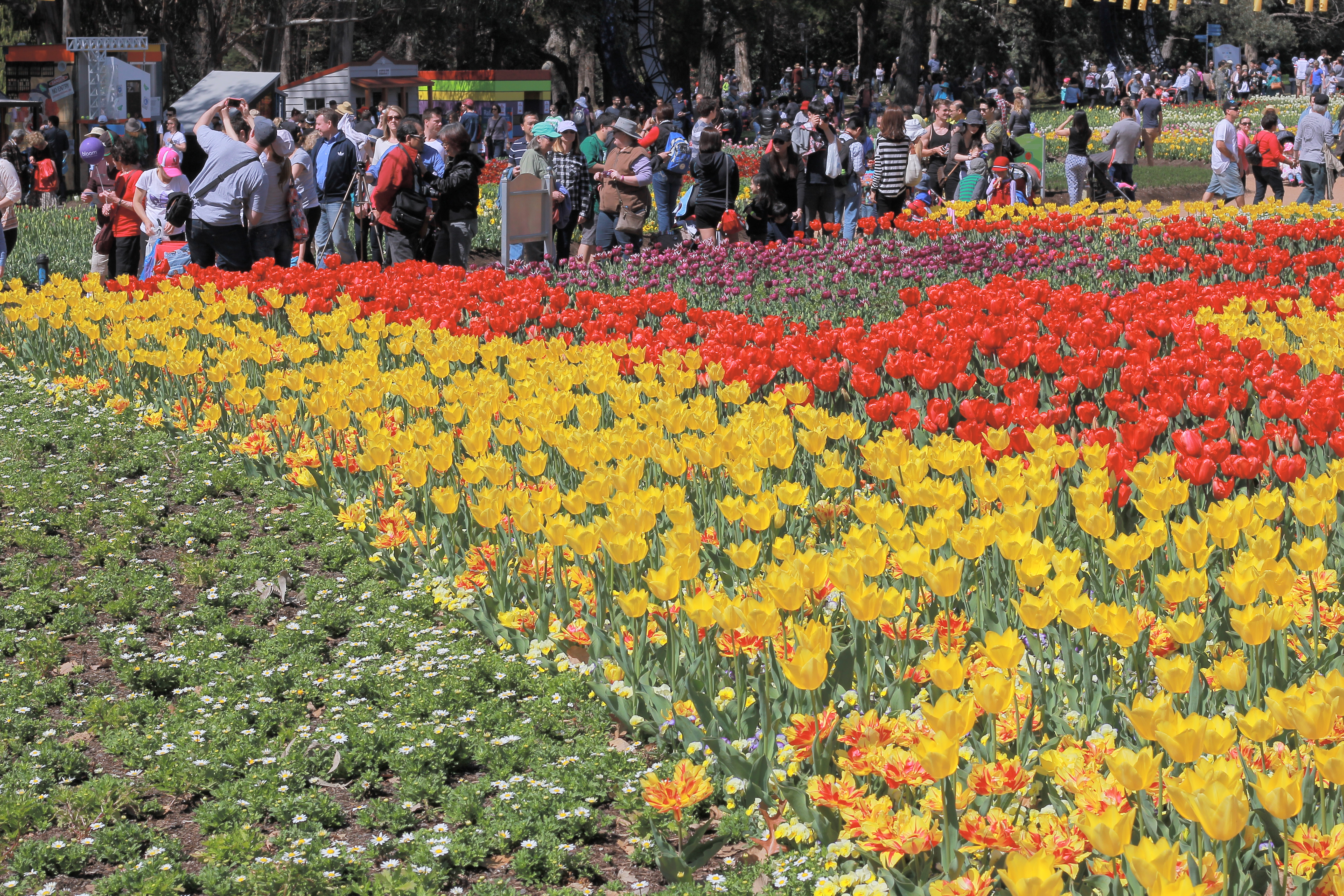 Floriade 2015, Canberra ACT Australia